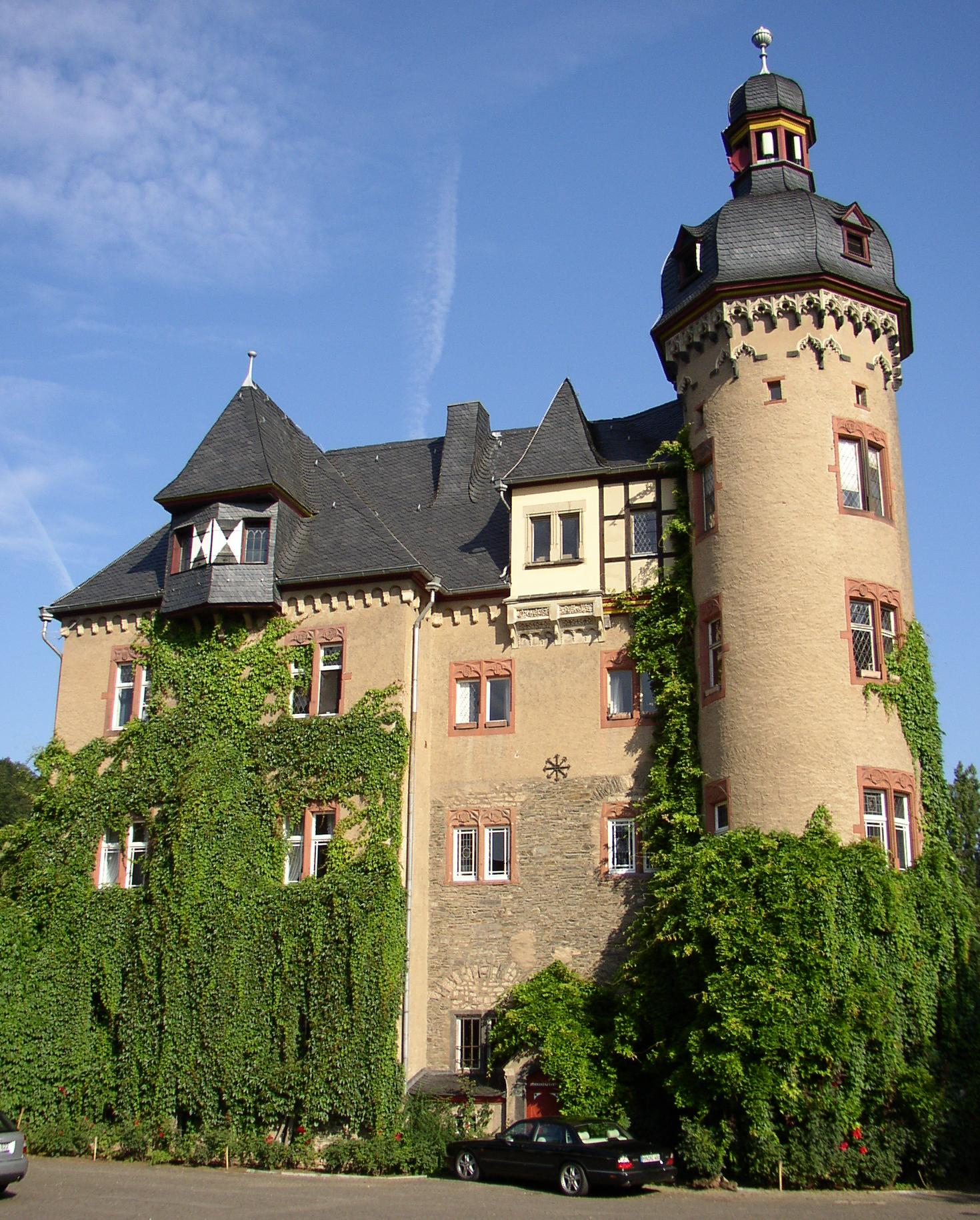 Castle Namedy in Andernach in Rhineland-Palatinate, Germany